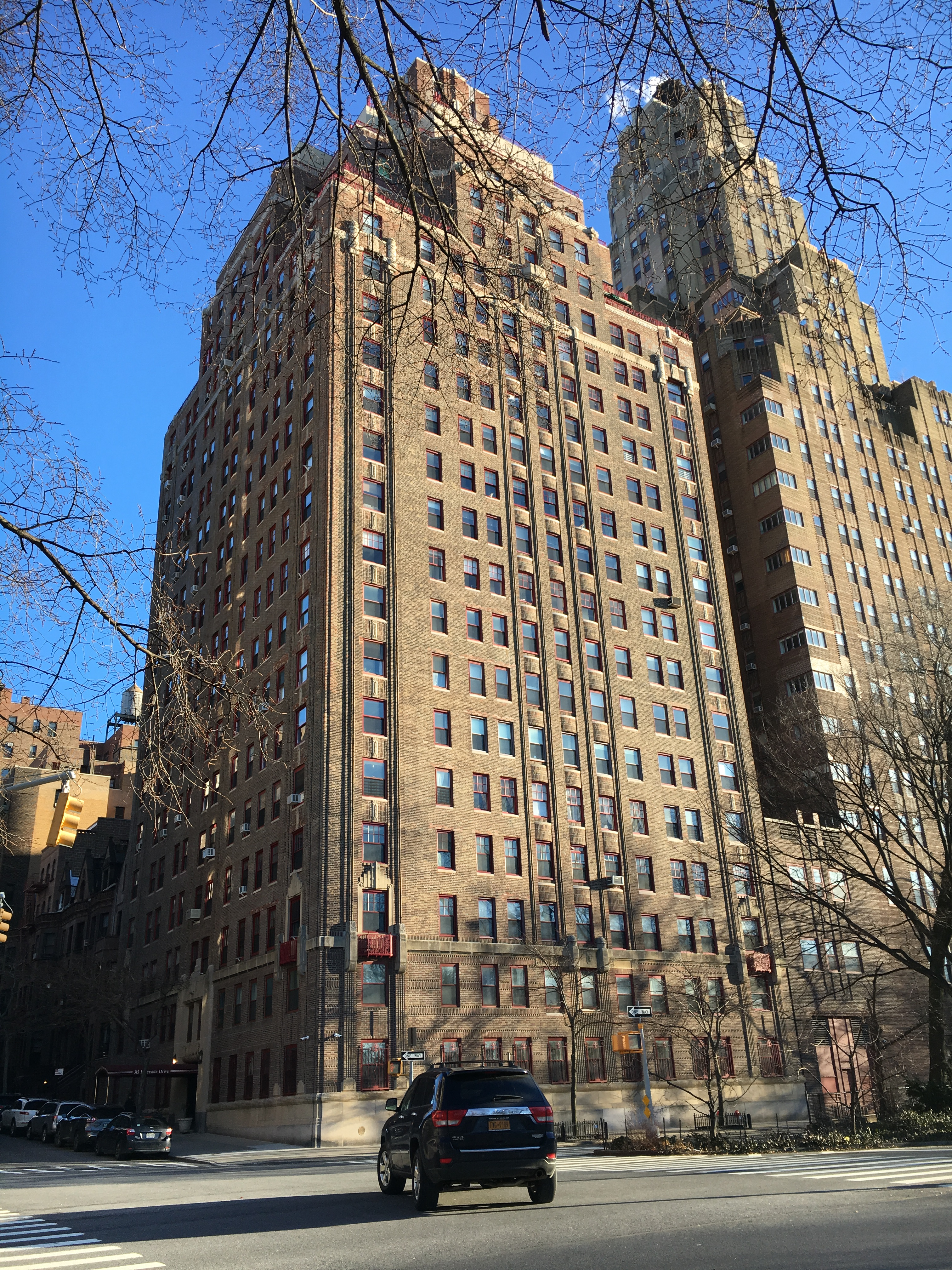 315 Riverside Drive, corner of 104th Street, Upper West Side, Manhattan, New York